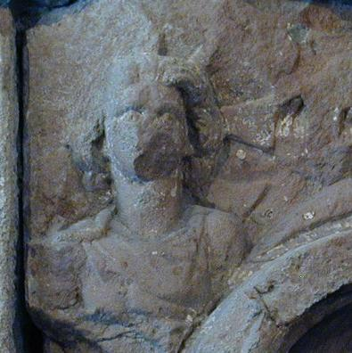 Sol Invictus, detail from Mithras relief of Neuenheim. Badisches Landesmuseum Karlsruhe.